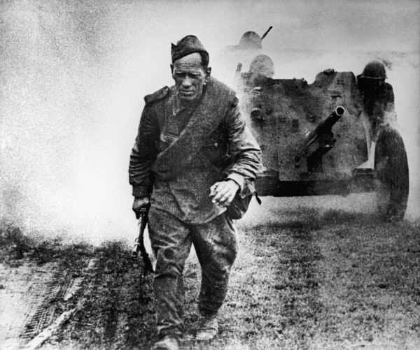 “Soldiers and a gun on the road”. A soldier walking along the road. Soldiers wheeling a gun behind him. Dust rises. Russia.